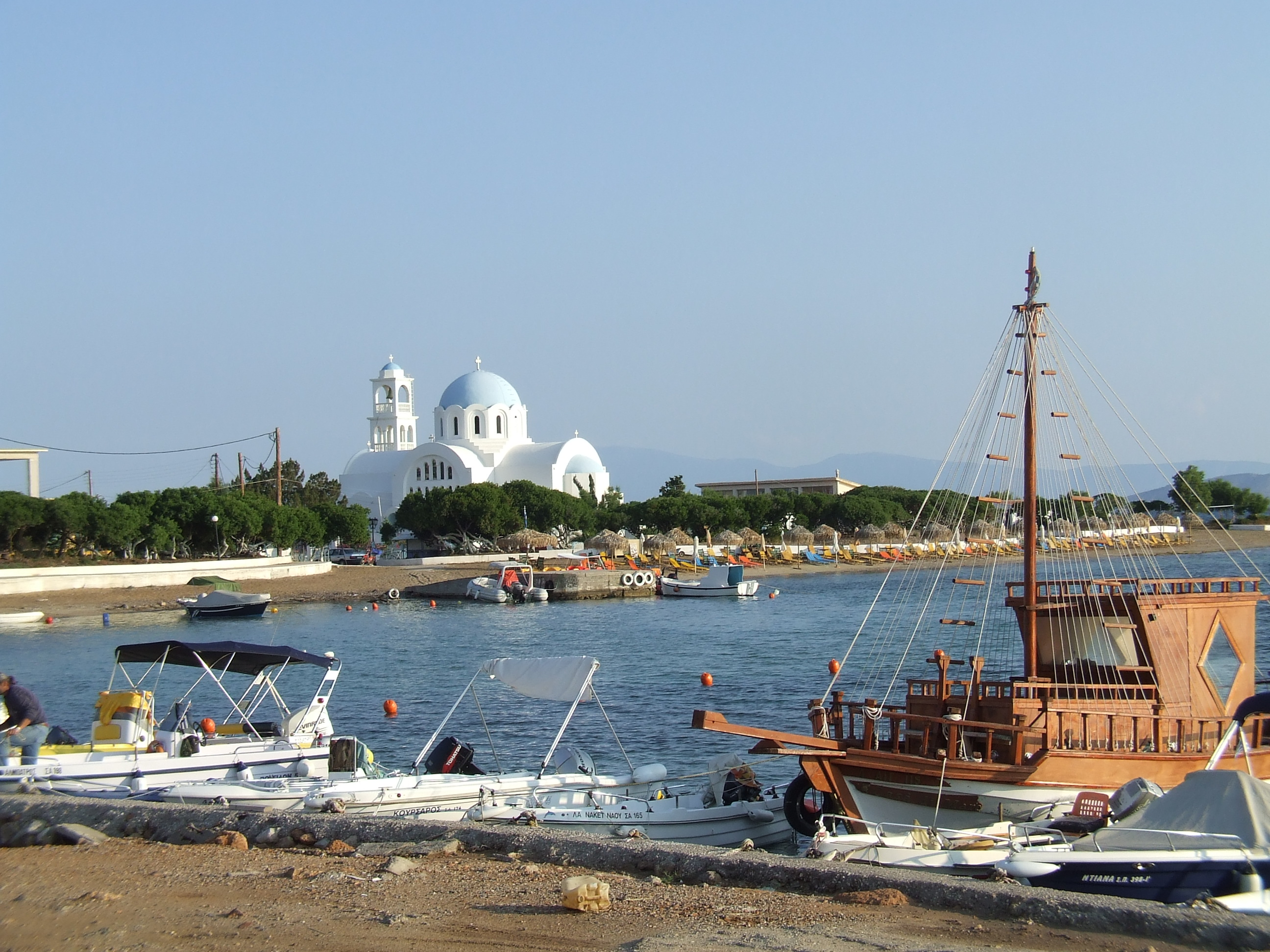 The Church of Agii Anargyri from the beach located near the small port town of Skala (SkalaΣκαλα Αγκιστριουunstarred) on the island of Agistri (Αγκιστρι), Greece.